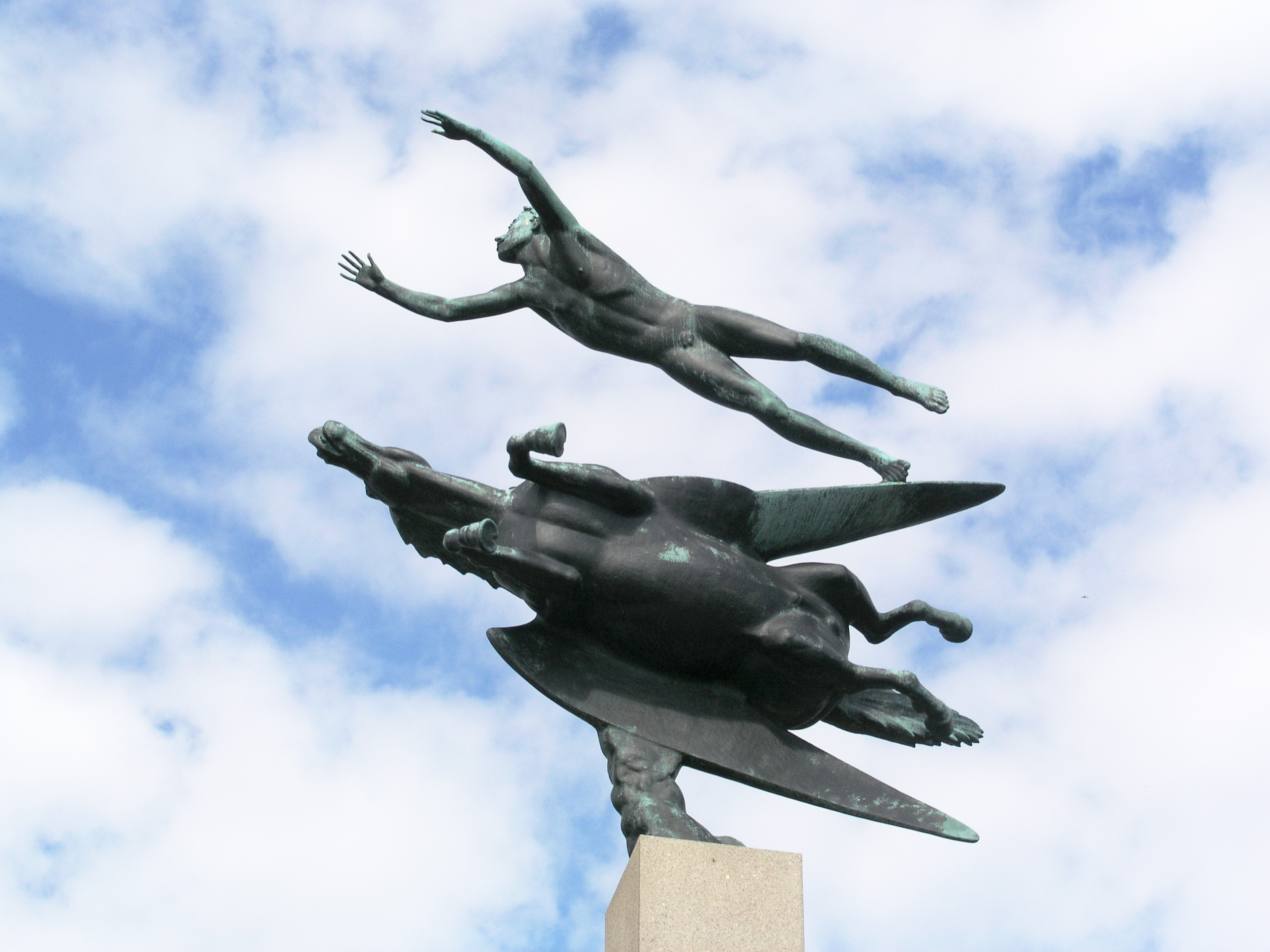 Man and Pegasus by Carl Milles. Millesgården, Lidingö, Sweden.